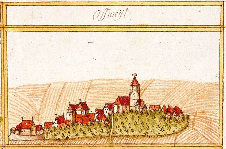 View of Oßweil, Ludwigsburg, from the forest register books created by Andreas Kieser